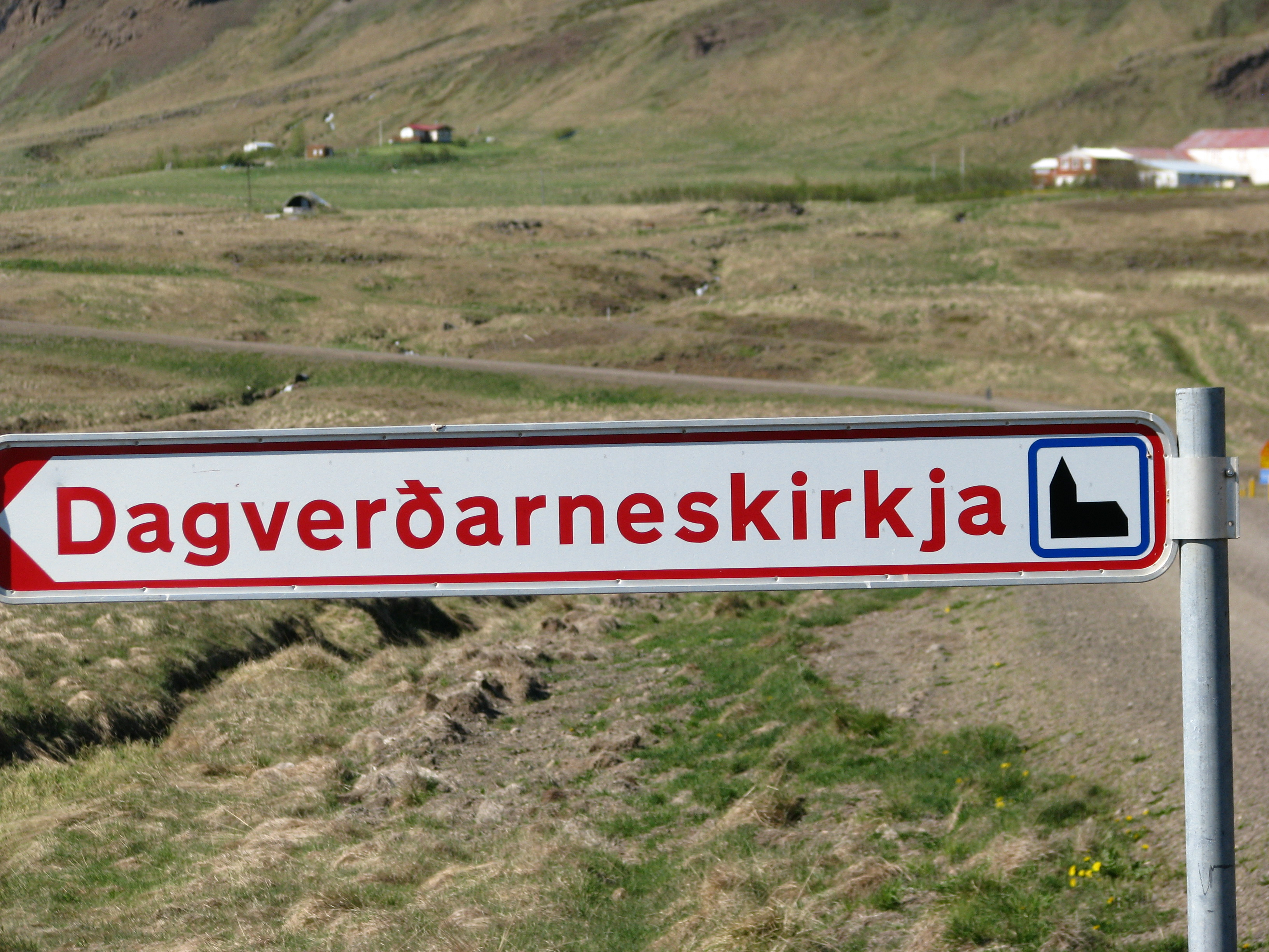 Sign with touristic information on Iceland